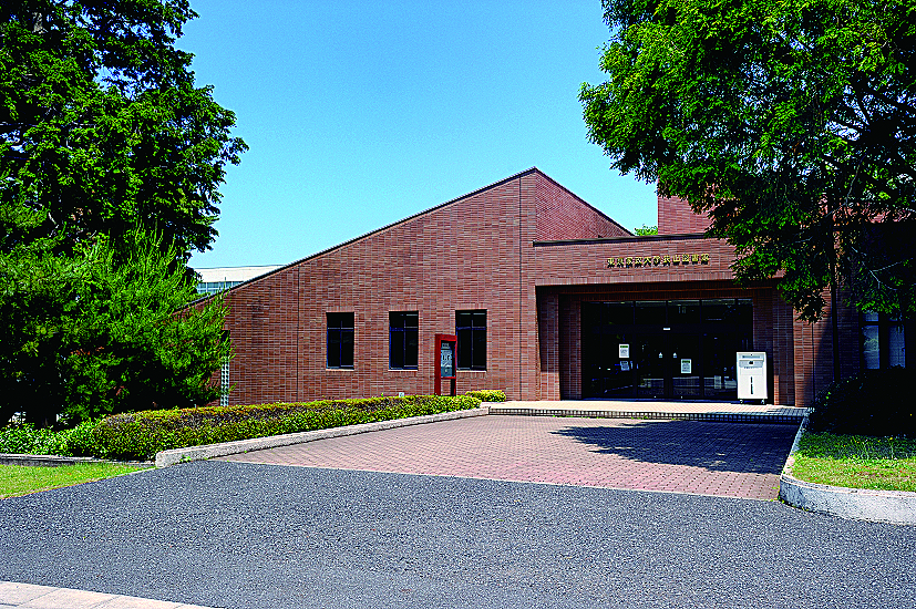 Sayama Campus buildings